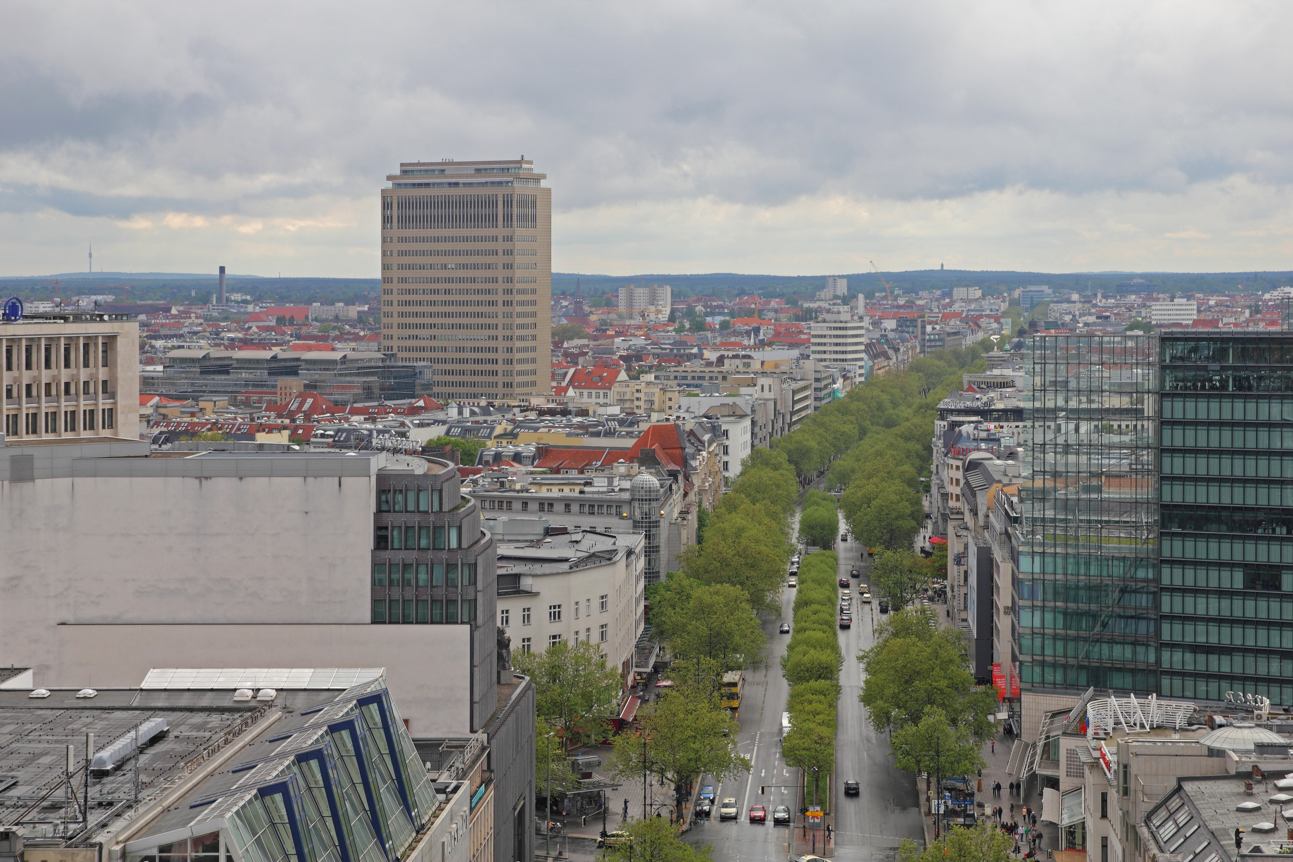 Views from the scaffolds of the Kaiser Wilhelm Memory Church. Berlin-Charlottenburg.